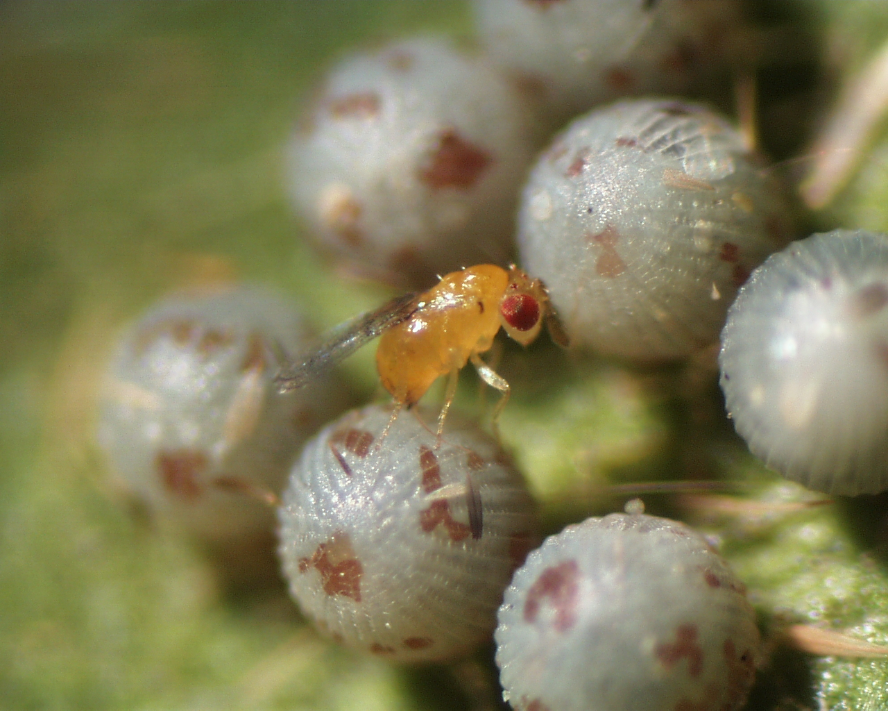 Female of parasitoid Trichogramma dendroliti Matsumura (0.5 mm in size) (Trichogrammatidae, Chalcidoidea, Hymenoptera) is ovipositing inside the egg of the armyworm (family Noctuidae). Photo was taken with the Olympus CX40 microscope.